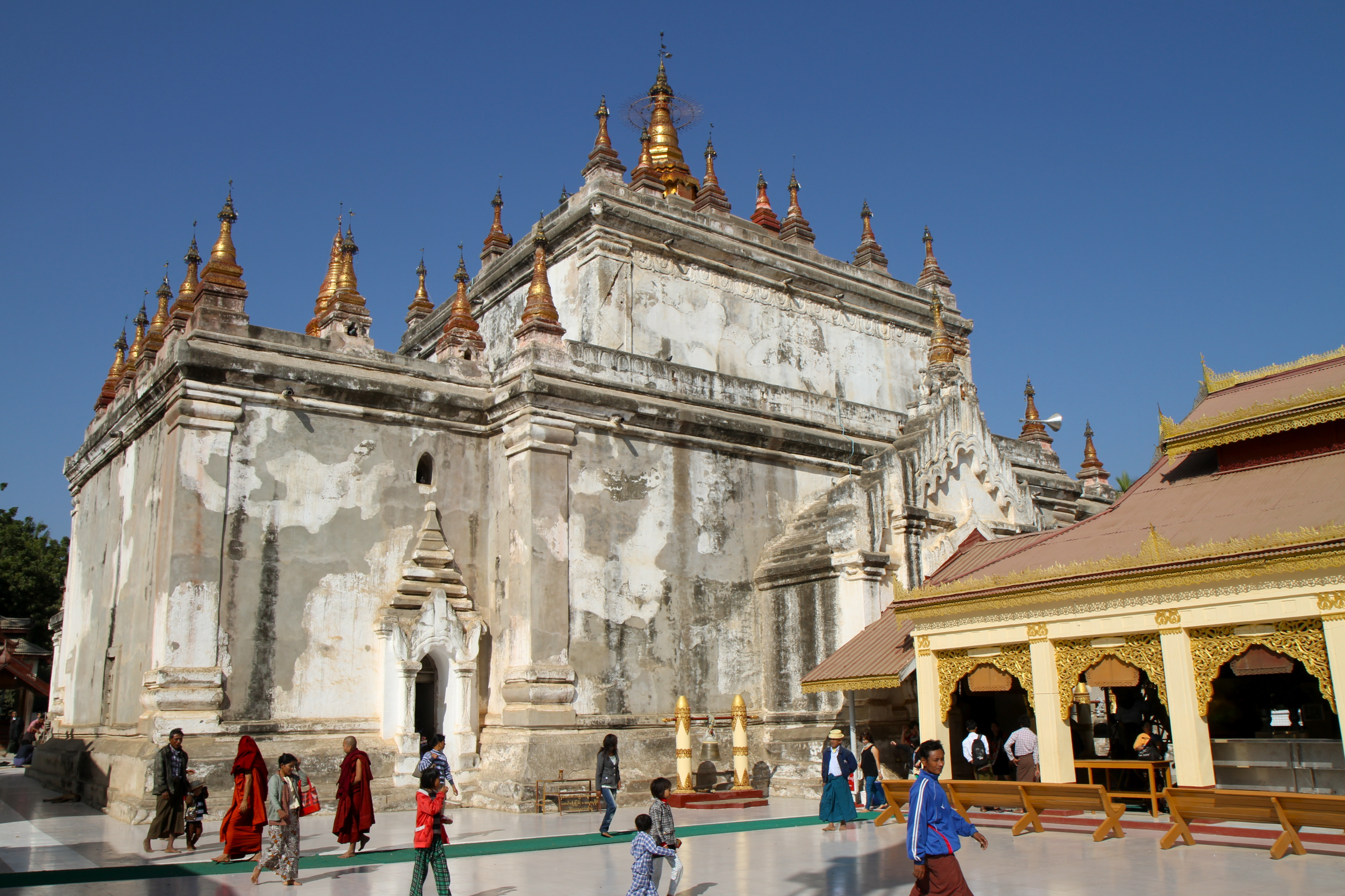 Manuha Paya